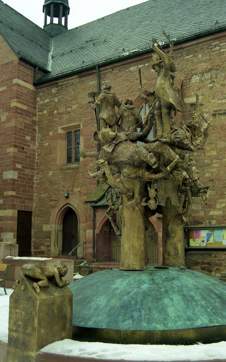 The Narrenbrunnen statue in the Marketplace in Buchen (Neckar-Odenwald-Kreis, Baden-Württemberg), Germany showing various characters of the Buchener Faschenacht (Buchen carnival) above a fountain representing three wells (turned off for winter). The characters include the Erbsenstrohbär (pea-straw bear) and the Huddelbätz, with pointed hats and costumed in strips of coloured rags or ribbons, who wear bells and make loud noises to drive out evil spirits. In the foreground is the legendary figure of the "Blecker", who dates from a time when Buchen was beseiged. As their food began to run out, the inhabitants decided to give it all to one man. Once he was fattened up, they displayed him, naked, on top of the walls. The sight of such a fat rump persuaded the attackers that the townspeople obviously still had plenty of food in reserve, so they gave up and retreated. The sculpture by Joseph Neustifter was unveiled on 11 11 1998, on which occasion the wells were filled with red wine.